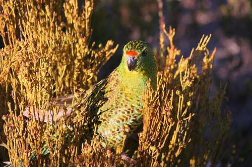 A Western Ground Parrot in Australia.